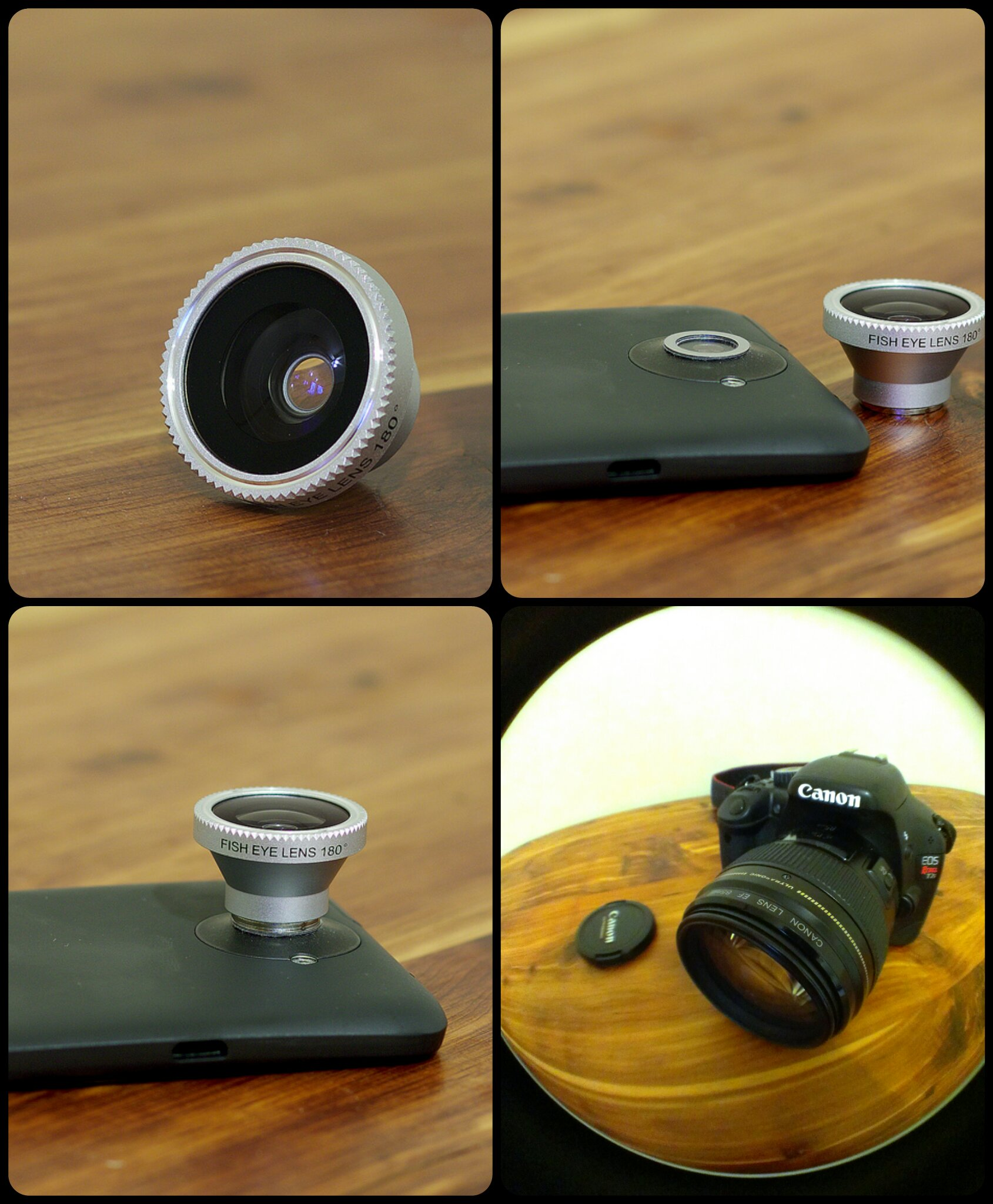 A collage of a 180 degree fisheye secondary lens attachment for a phone camera (by itself, next to a phone with a stick-on magnetic right to attach it, and attached to the phone) along with an example fisheye image taken with the lens.